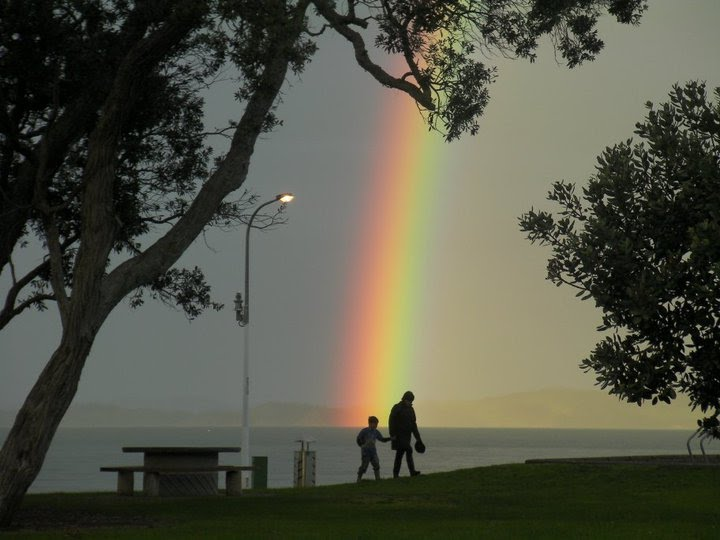 After an intense shower in Maraetai Beach, in Auckland, New Zealand, my daughter shot this picture of the rainbow over the Hauraki Gulf. This picture is public domain from An American's perspective on New Zealand (see notice at top of article). Questions? Ask here.